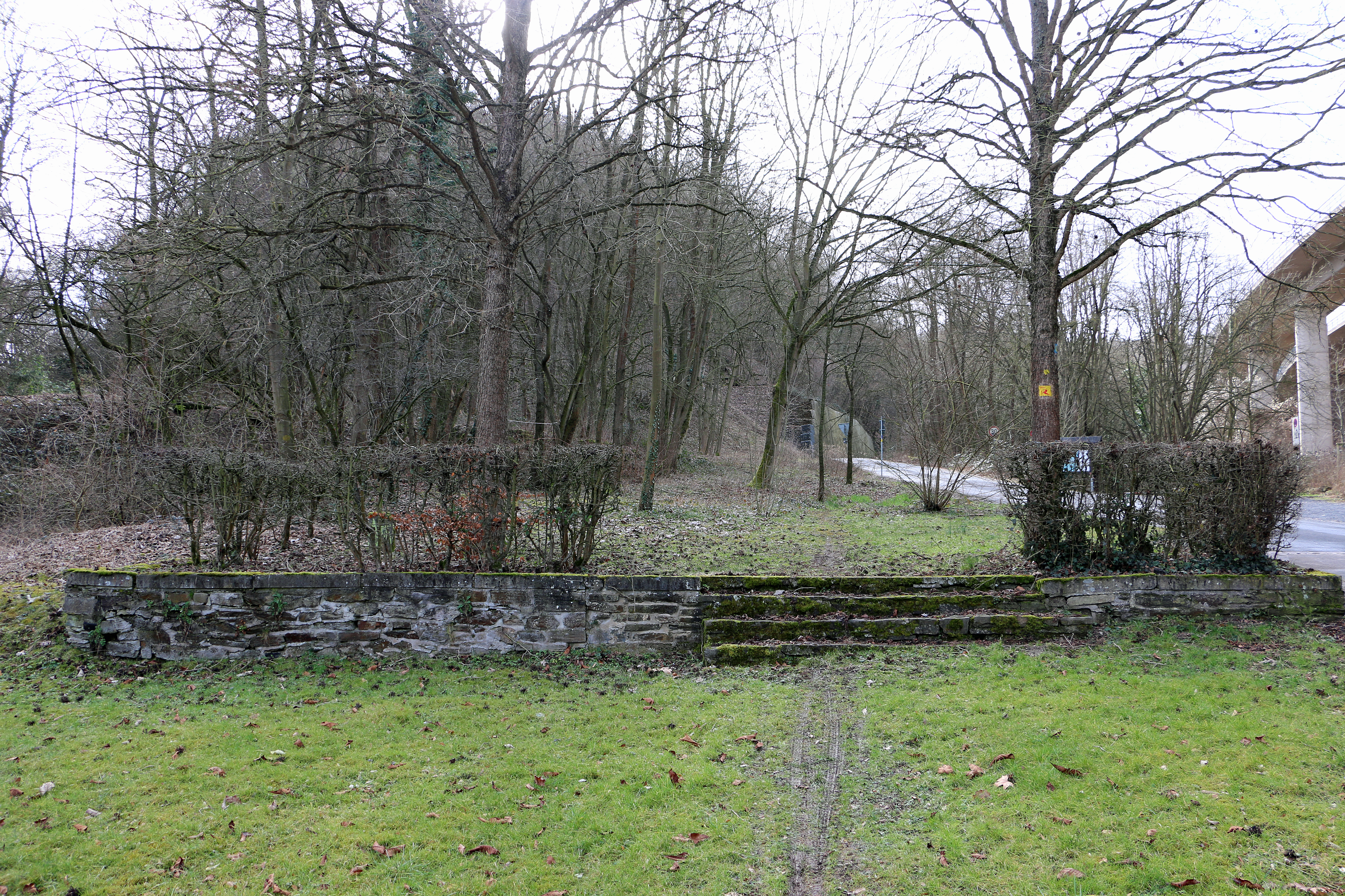 Rittersturzbahn in Koblenz